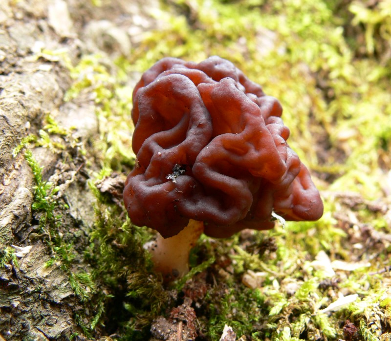 Picture taken by me (Fréderic Coune) for use on english (as well as other) wikipedia.